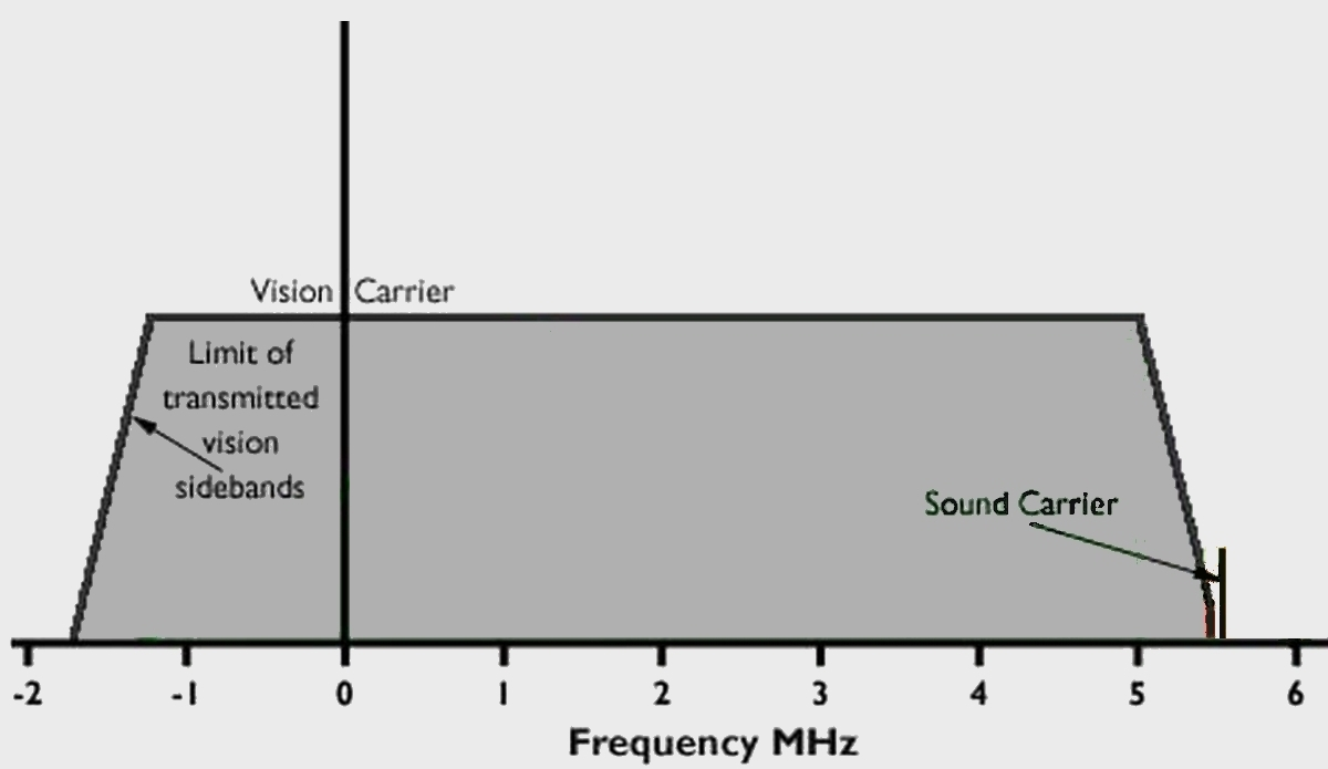 Diagram of TV signal with one full sideband and the other attenuated (vestigial)